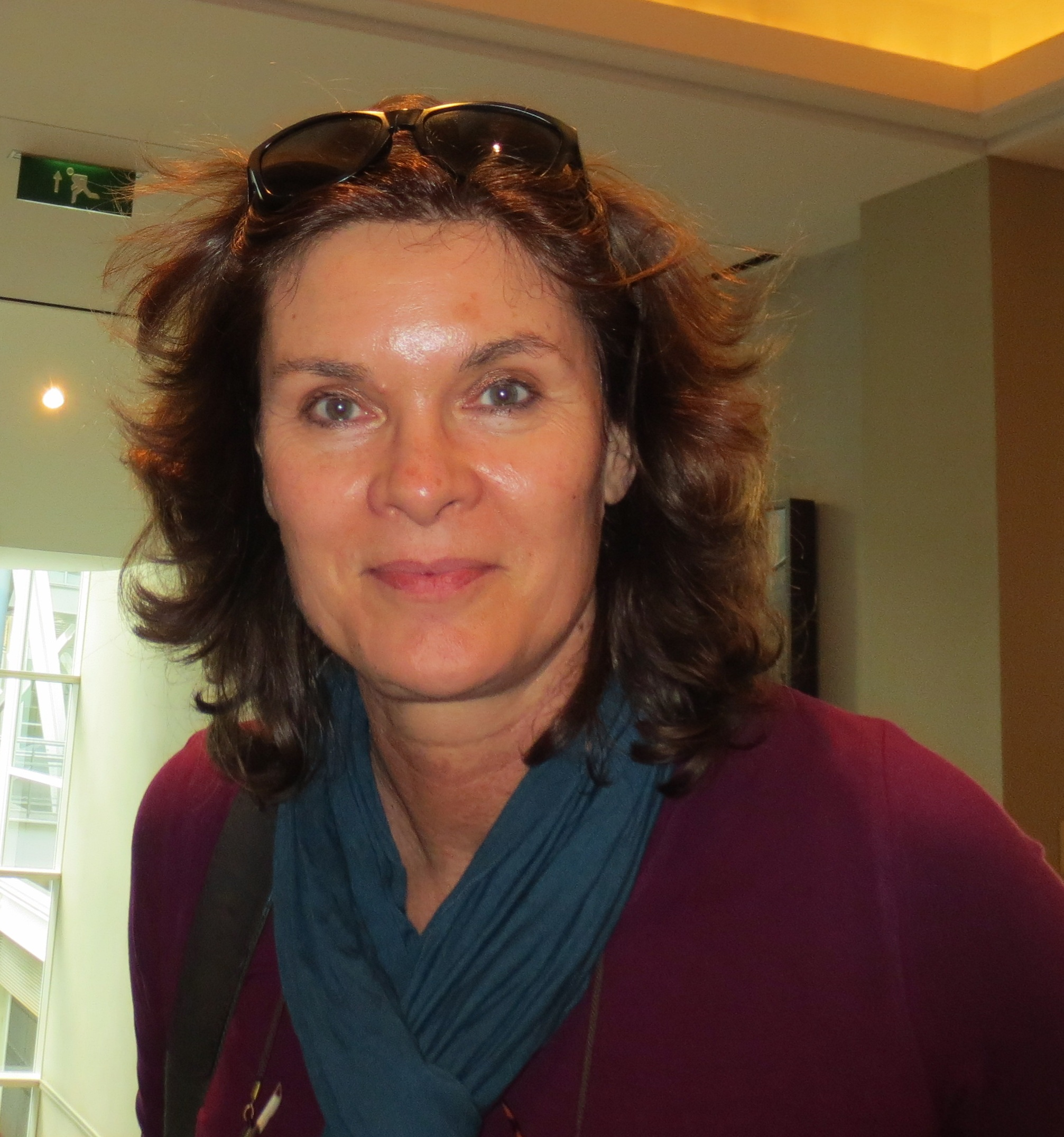 Ulrike Meyfarth in Barcelona, Spain.